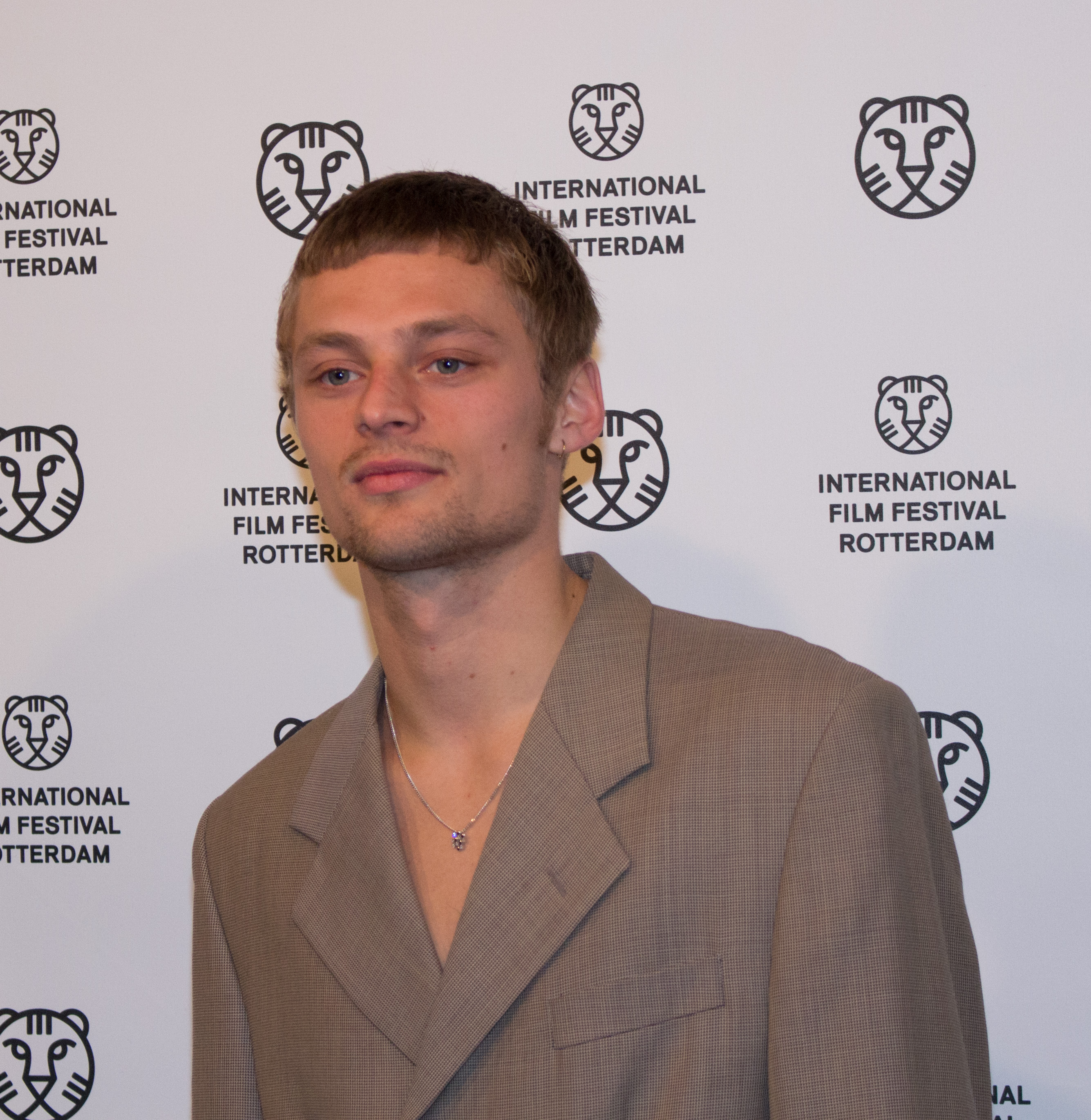 cast & crew of "Paradise Drifter" at the 49th International Film Festival Rotterdam